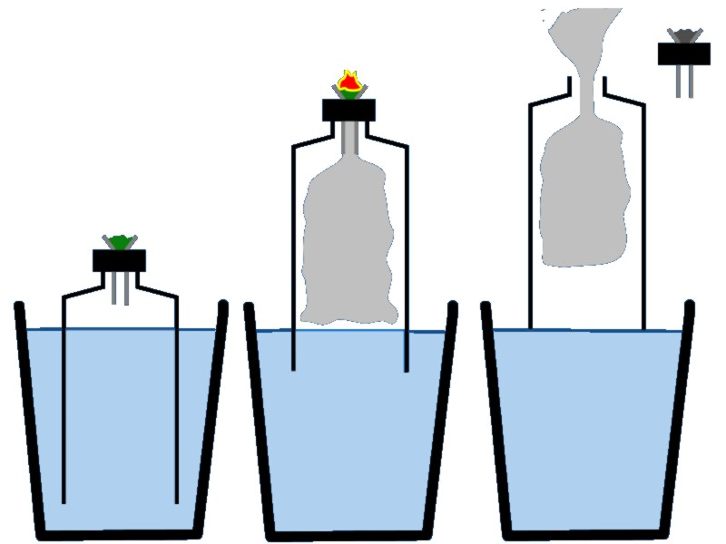 Waterfall bong I edited it to maaaake a bucket bond (thumbs up)